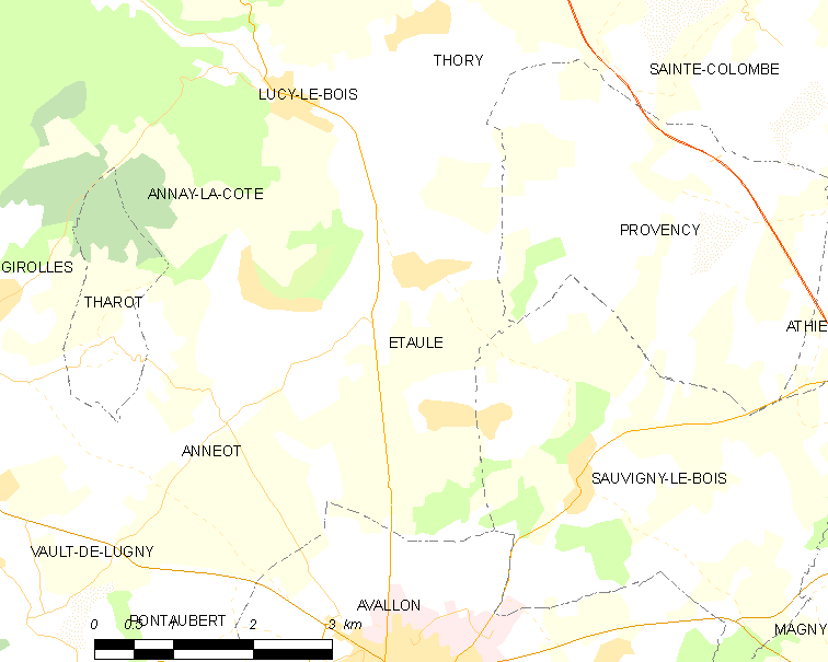 Map of French municipality Étaule